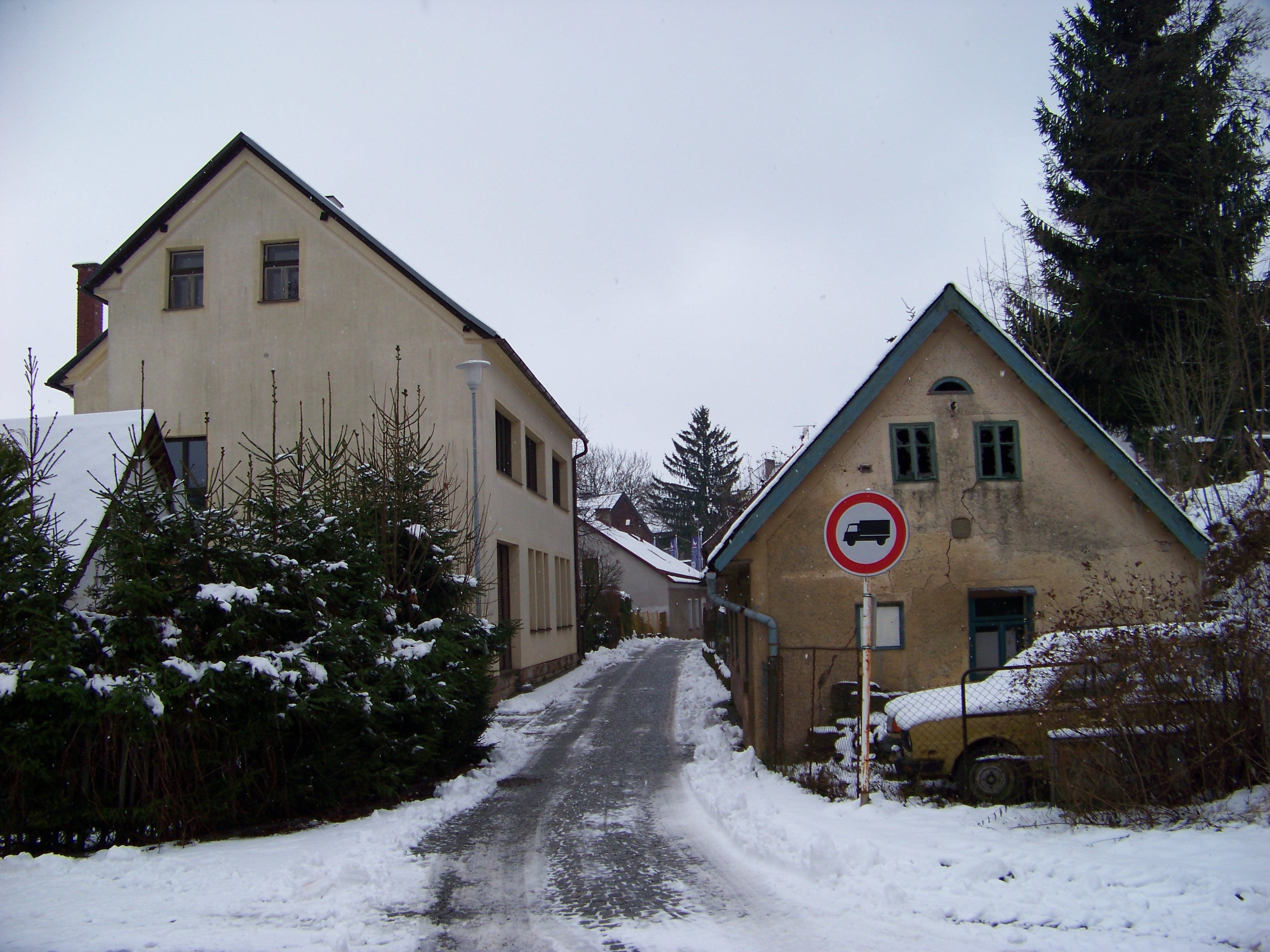 Lomnice nad Popelkou, Semily District, Liberec Region, Czech Republic. Houses No. 188 and 189, from Hálkova street. - OpenStreetMap (Info)